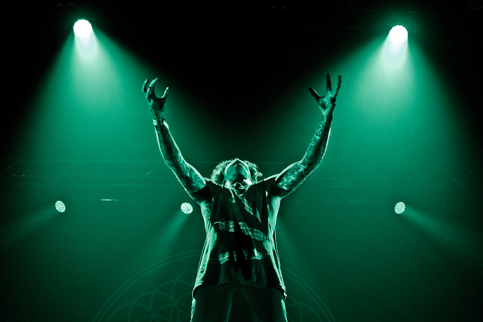 Oliver Sykes of Bring Me The Horizon at Southside Festival 2014 in Neuhausen ob Eck